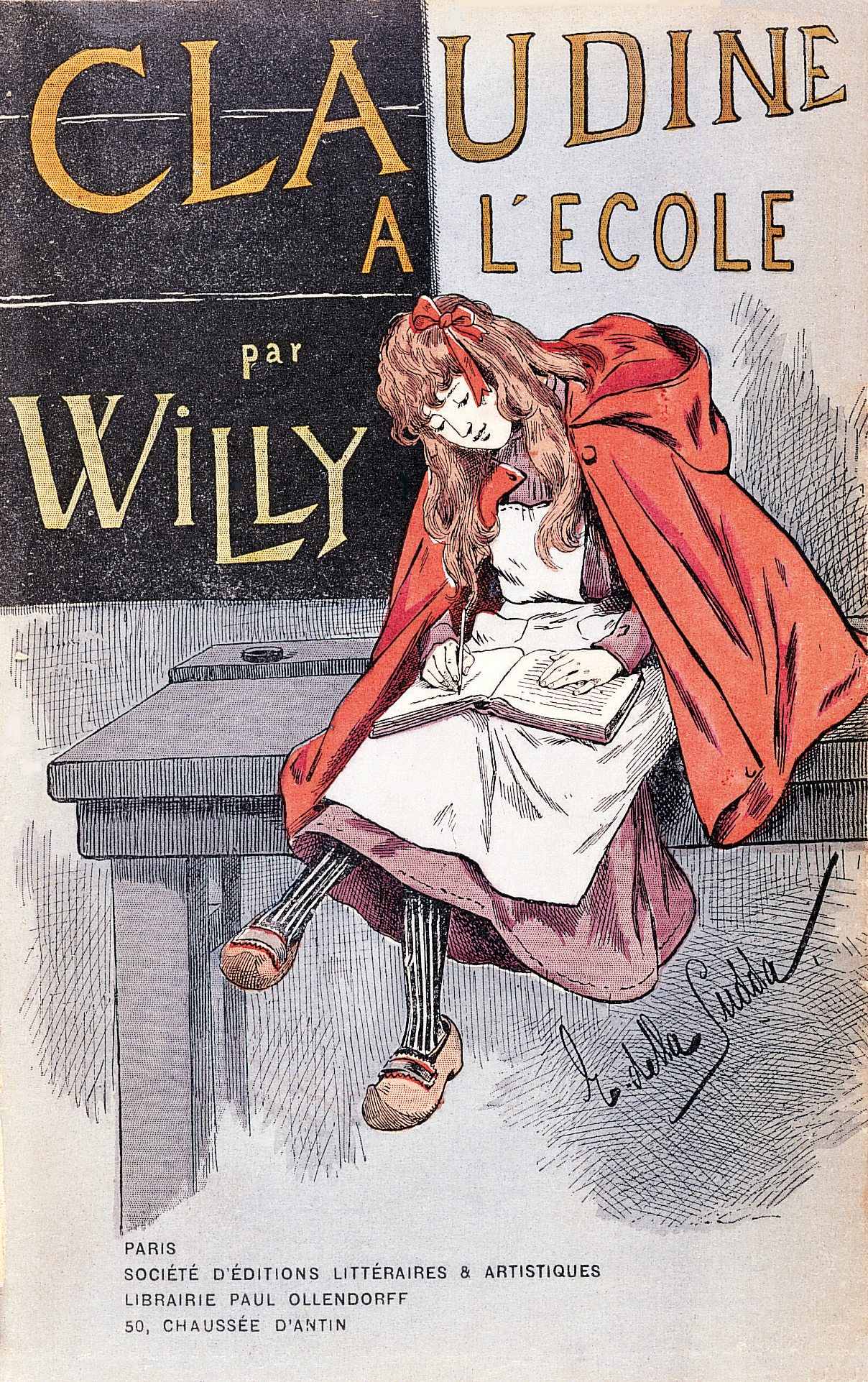 Front cover of 1st edition Claudine a l'école, 1900, published in Paris by Société d'Éditions Littéraires & Artistiques, Librairie Paul Ollendorff, Chaussée d'Antin